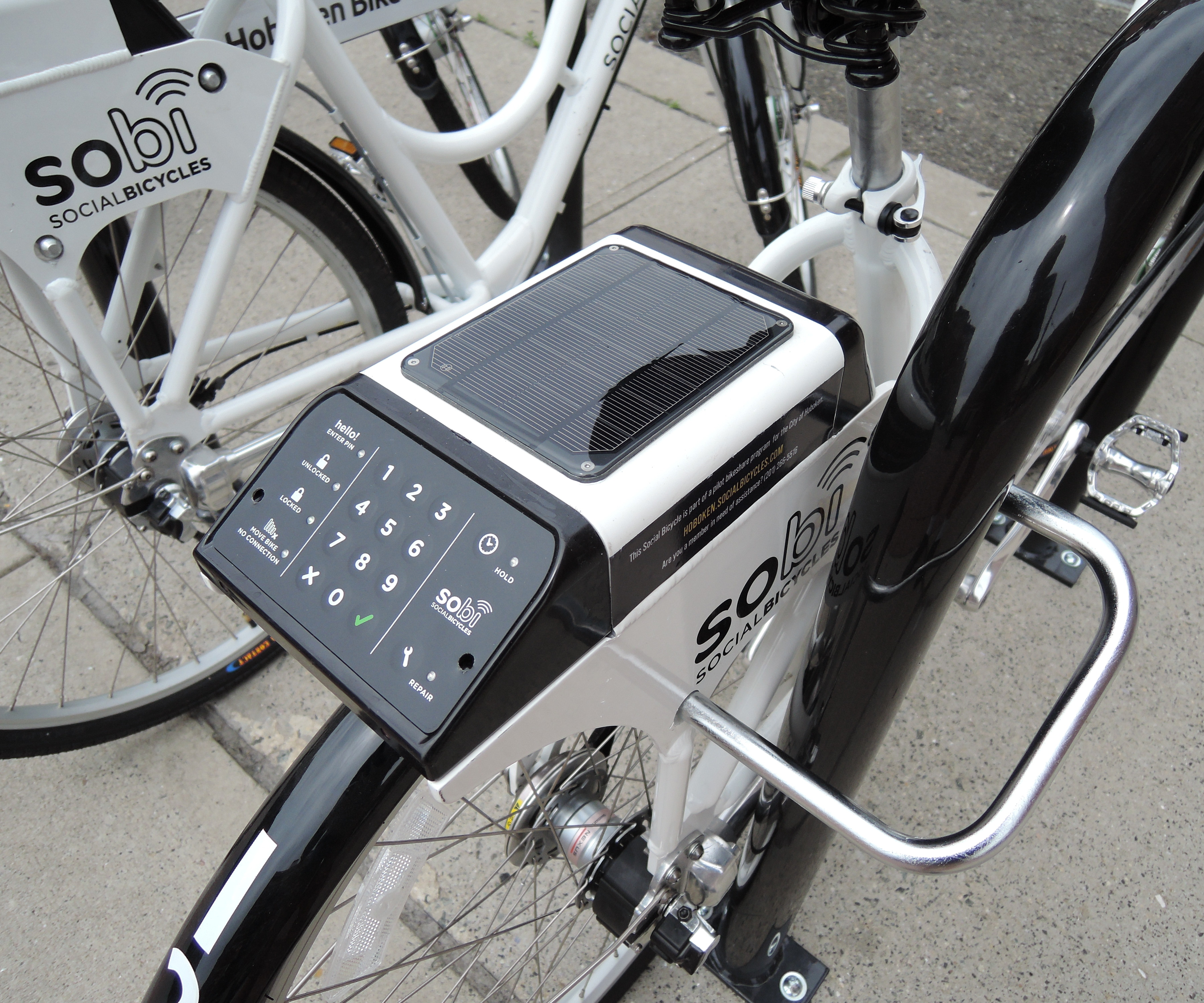 Bike with sharing electronics.